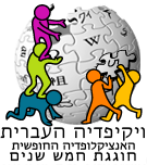 A special logo on the occasion of he-wp 5th anniversary